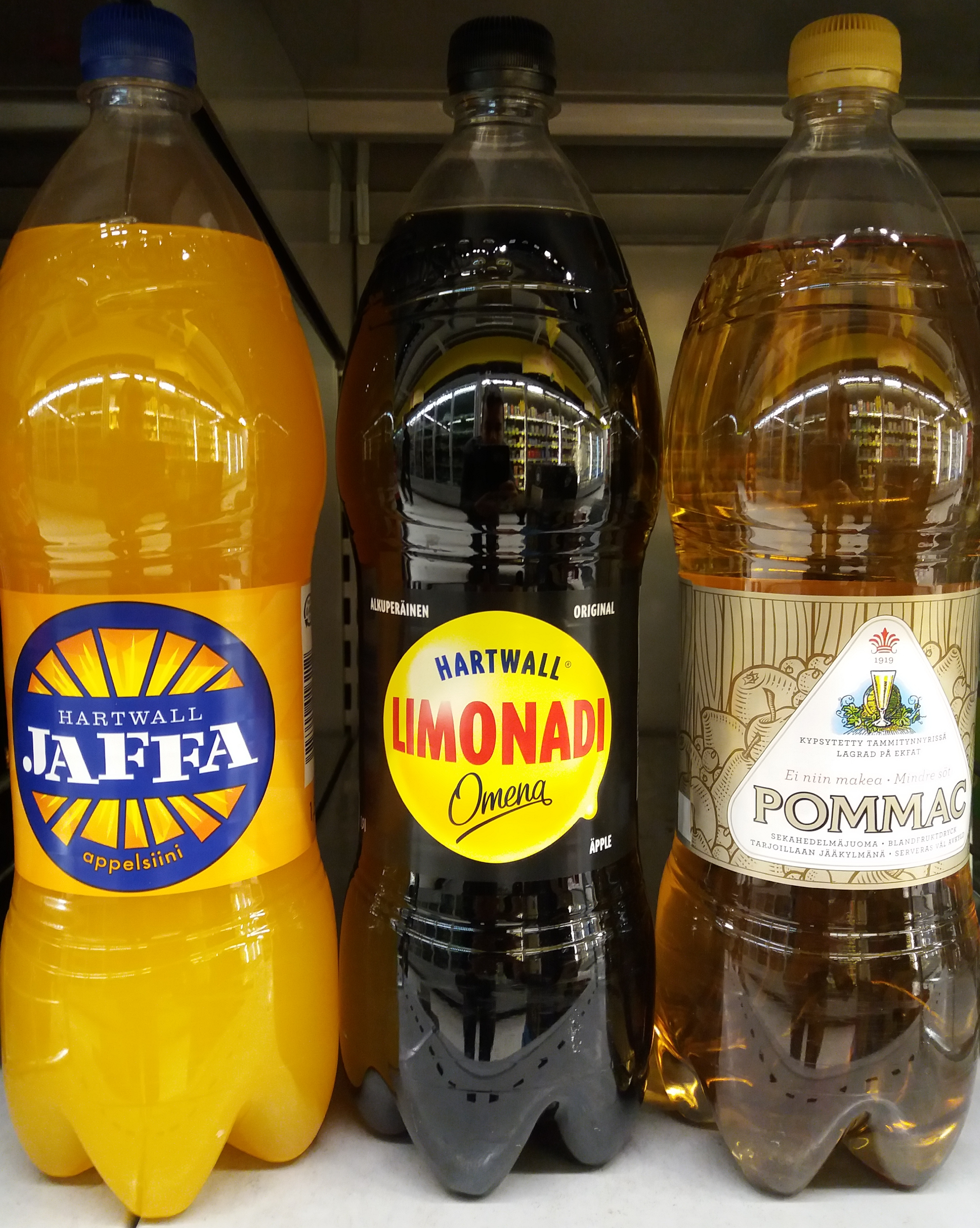 Three big bottles of different soft drinks by Finnish brewery company Hartwall. Hartwall Jaffa orange lemonade, Hartwall Omenalimonadi apple lemonade and Hartwall Pommac fruit drink which is brewed in an oak barrel. Photographed in Helsinki, Finland.